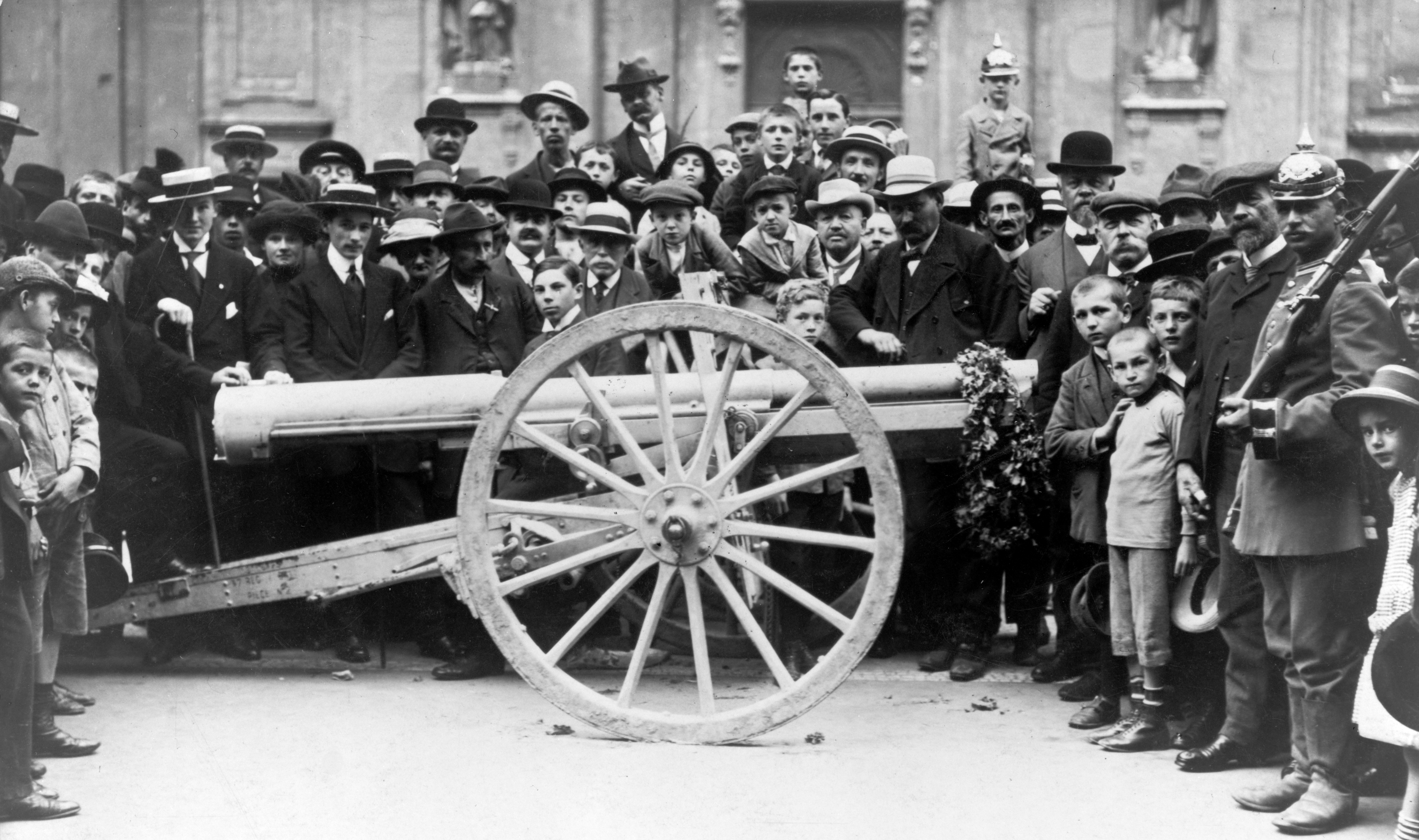 Crowd of German civilians, including children, surrounding a cannon which has a garland hanging from the muzzle. The gun is captured French Canon de 75